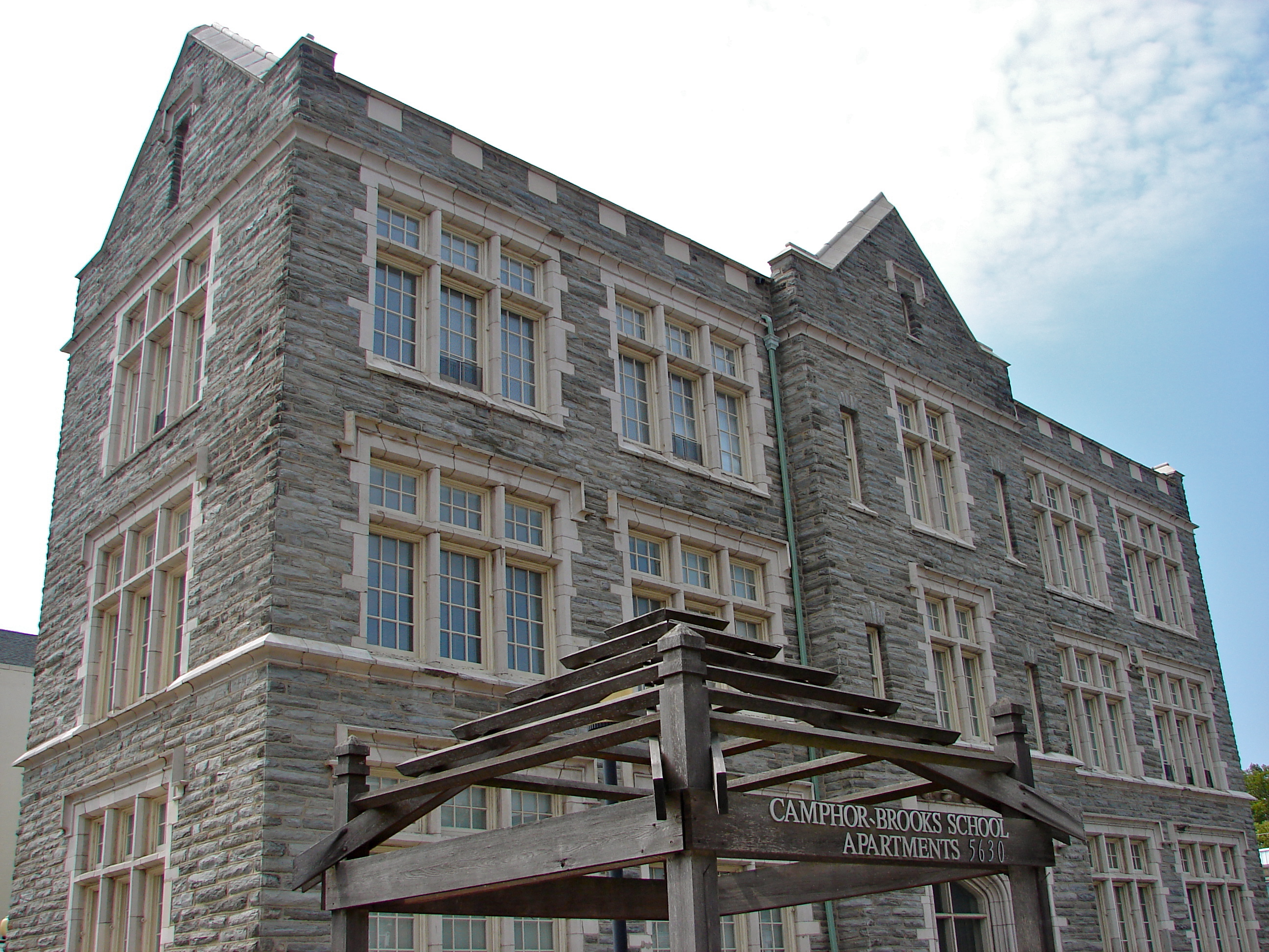 George L. Brooks School in Philadelphia on the NRHP since December 4, 1986. At 5630 Wyalusing Avenue in the Haddington neighborhood of West Philly. Now a houses senior apartments.